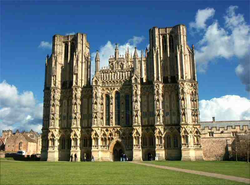 Wells Cathedral England - west front